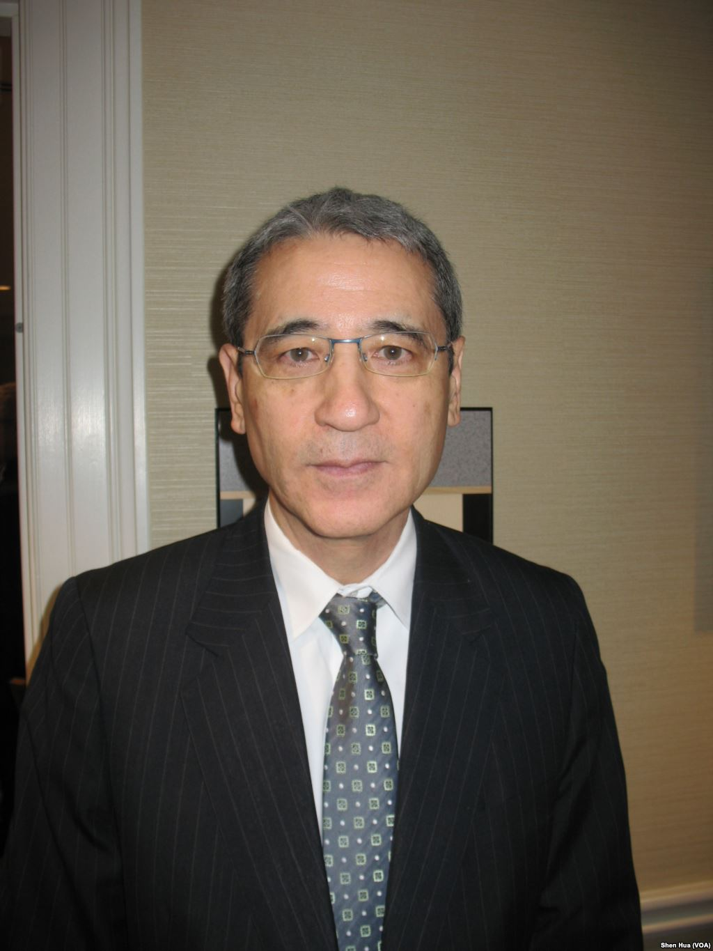 Gordon G. Chang.